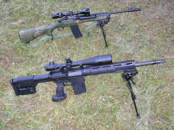 Front: DPMS SASS, 7.62mm. Rear: Ruger Mini-14, 5.56mm